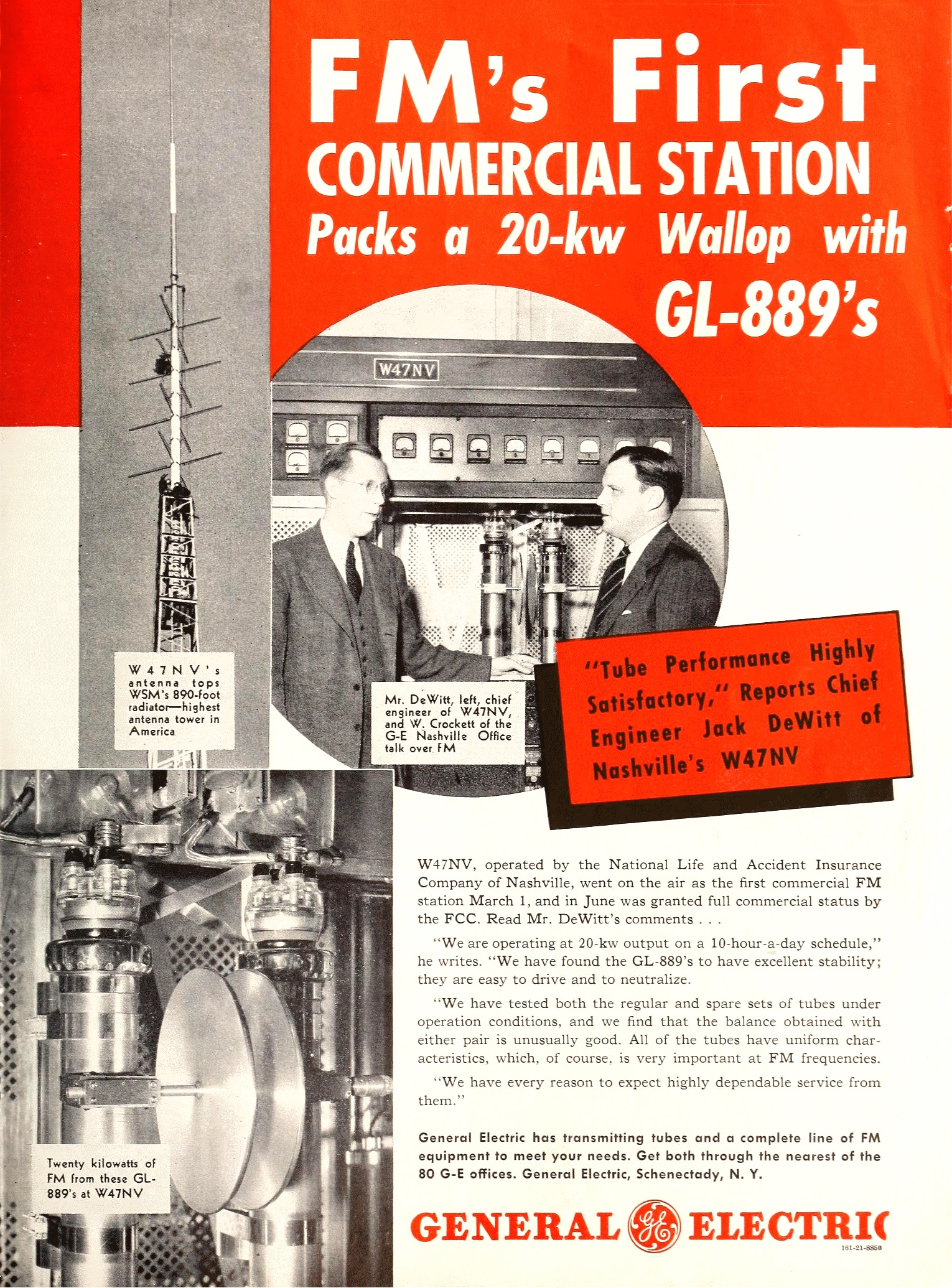 In 1941 General Electric provided GL-889 vacuum tubes used in the transmitter for pioneer Nashville, Tennessee FM radio station W47NV. This advertisement includes three photographs of the station's facility